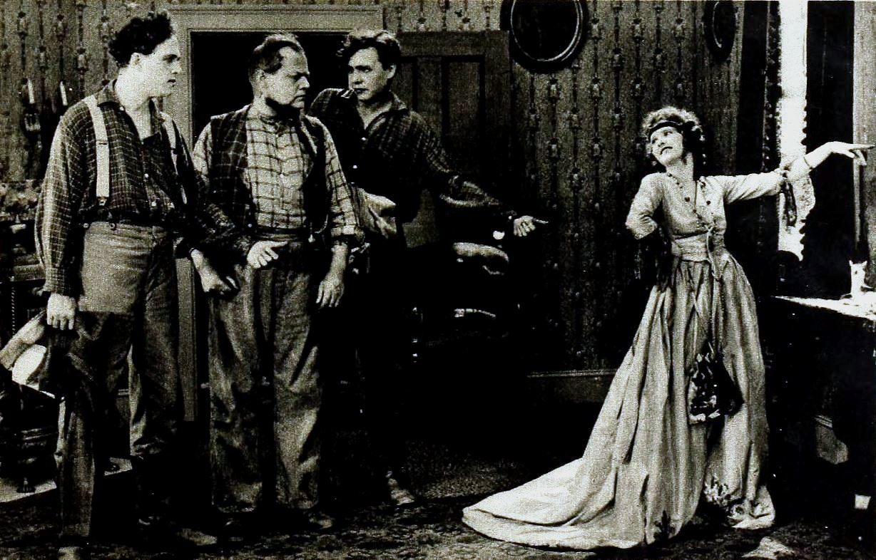 Still from the American silent film Erstwhile Susan (1919) with Anders Randolf, Bradley Barker, Georges Renavent, and Mary Alden, on page 37 of the November 1919 Shadowland.